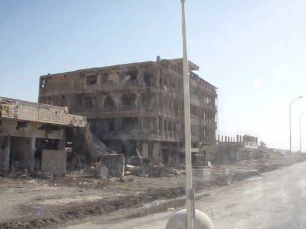 A joint US-Iraqi Army outpost on the northern edge of the Mu'laab neighborhood in east Ramadi, Iraq. This was the staging point for many joint raids into the neighboring Al Iskaan and Mu'laab districts.